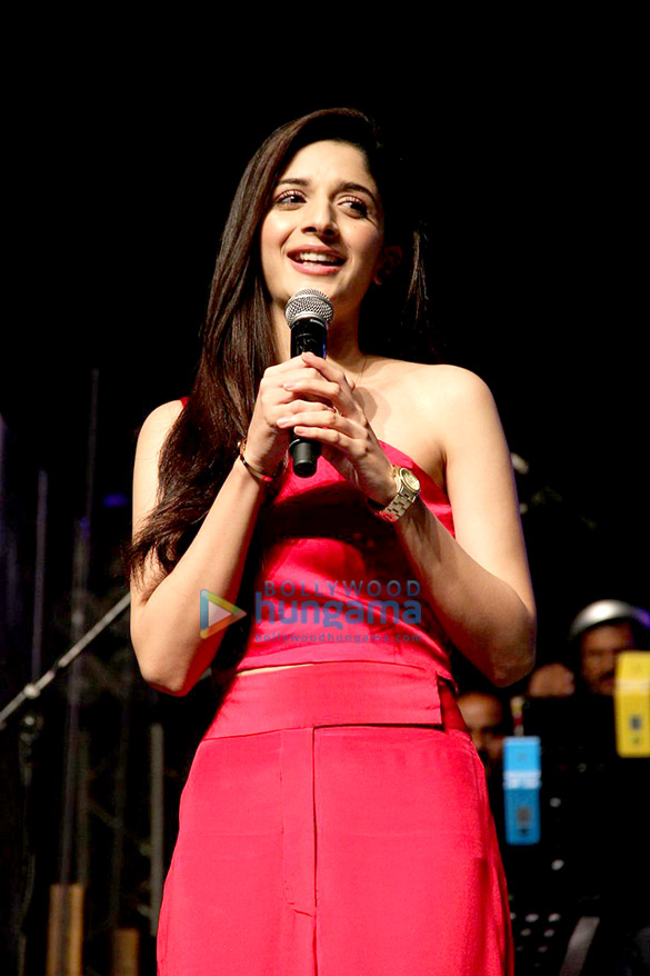 Mawra Hocane at Launch of 'Tera Chehra' song from Sanam Teri Kasam at Arijit Singh's concert